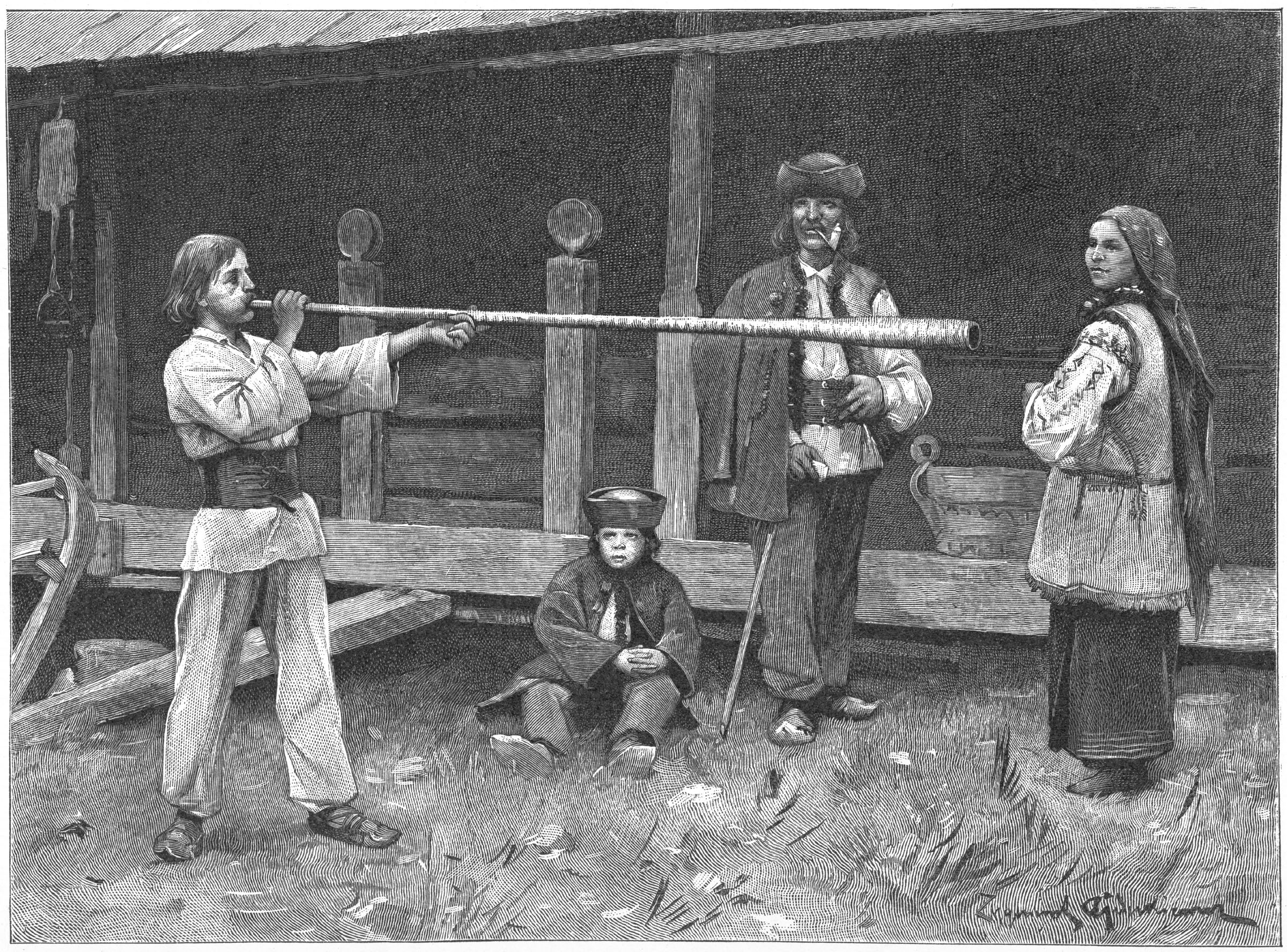 Hutsuls, People of the Carpathian Mountains.